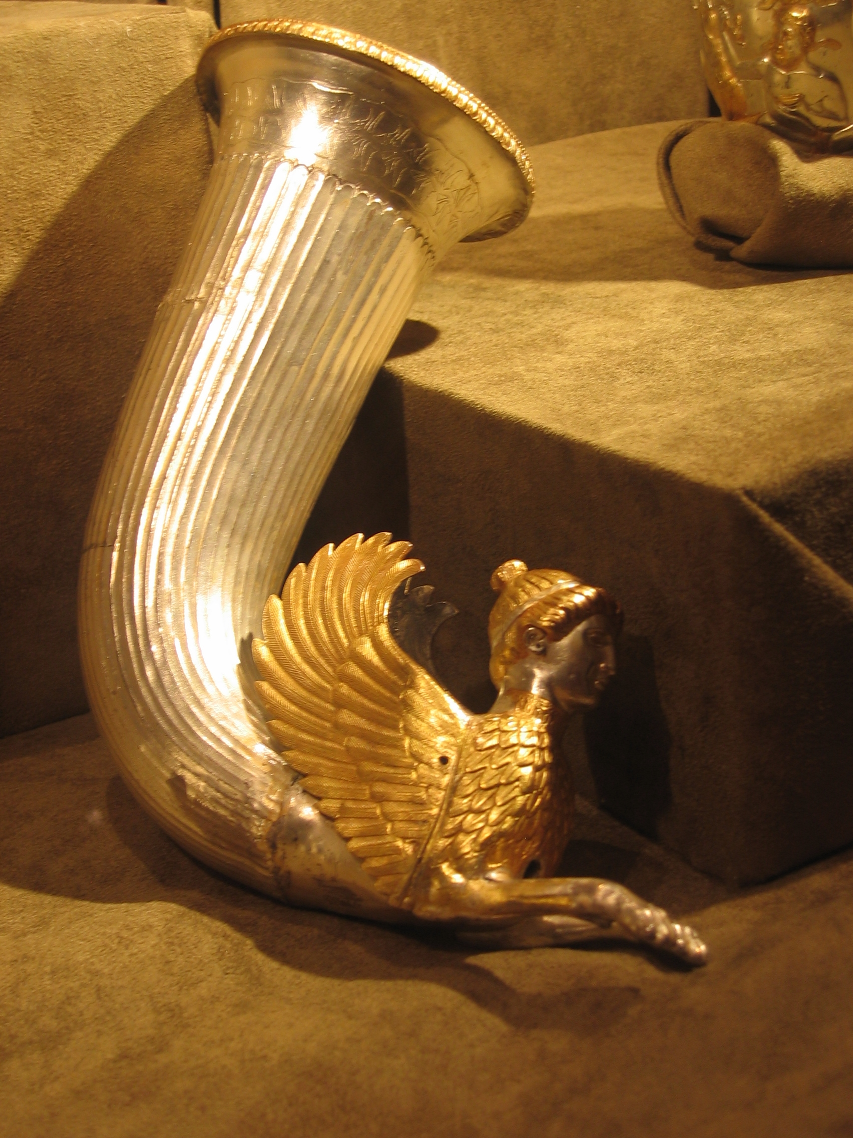 Thracian silver treasure from Borovo, Rousse region, Bulgaria, IV BC, Rousse Museum of History. Sphynx protome rhyton.